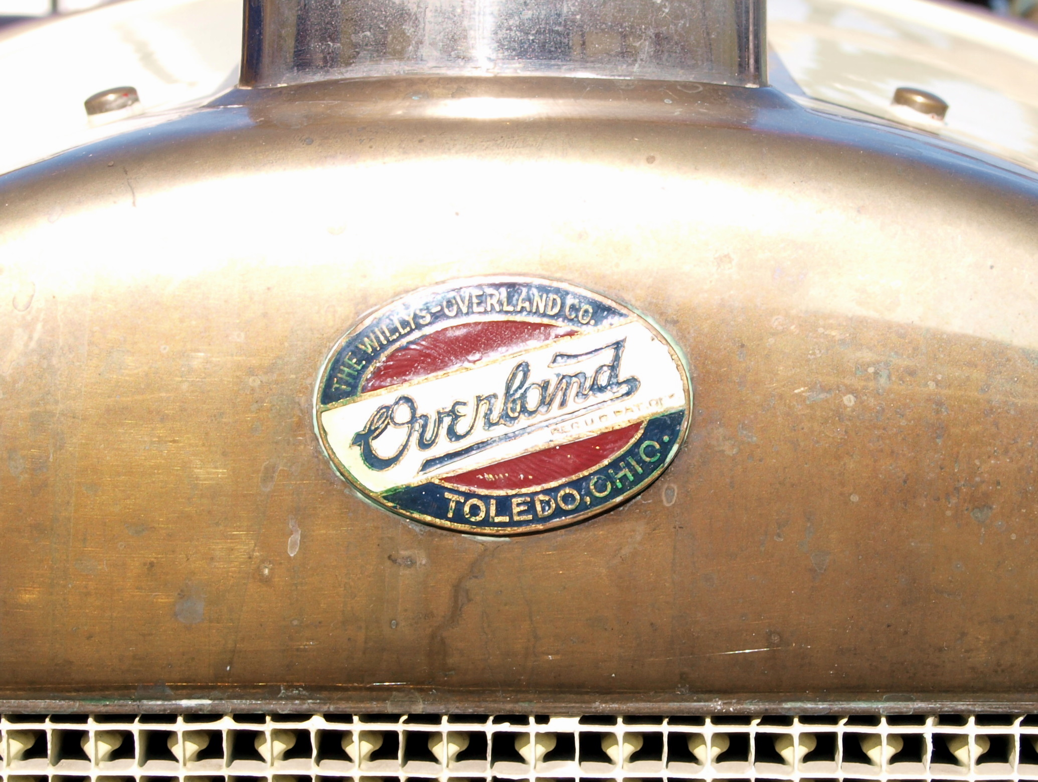 Photographed at The International Oldtimer Fly and Drive In 2010, Schaffen-Diest, Belgium.